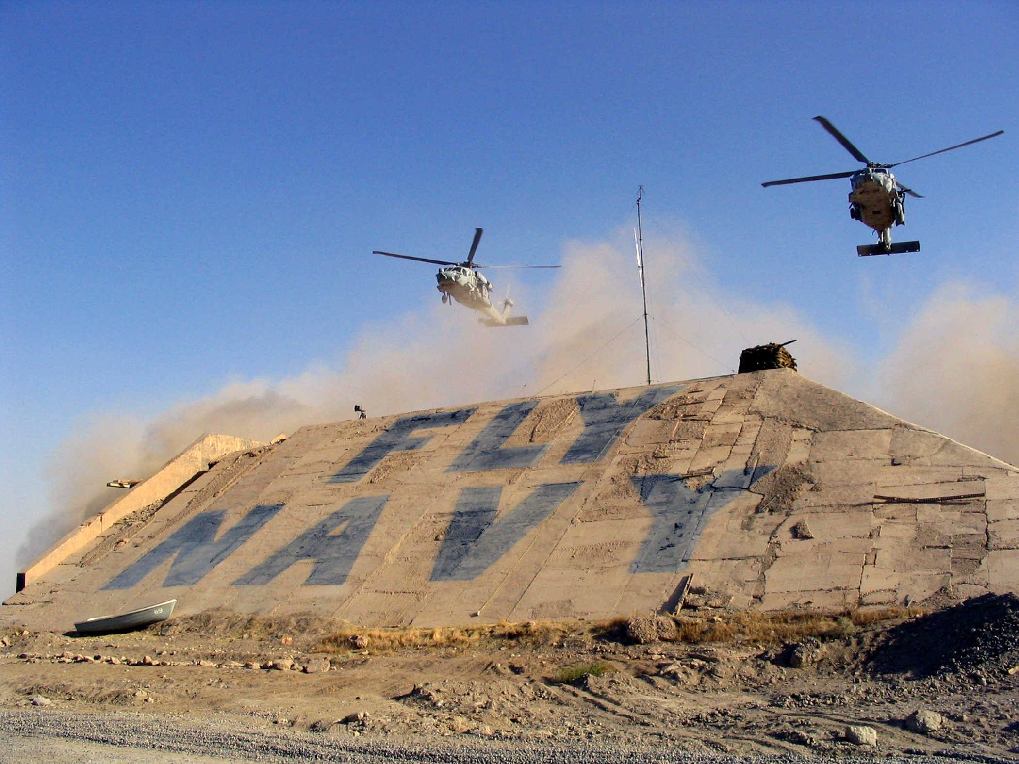 Baghdad, Iraq (Nov. 30, 2003) -- Two HH-60H helicopters assigned to the “Firehawks” of Helicopter Combat Search and Rescue Squadron/Special Warfare Support Special Squadron Five (HCS-5) do a fly-by over a hardened aircraft structure at Baghdad International Airport. HCS-5 is deployed to Iraq in support of Operation Iraqi Freedom. U.S. Navy photo by Aviation Structural Mechanic 1st Class Kevin Peck. (RELEASED)